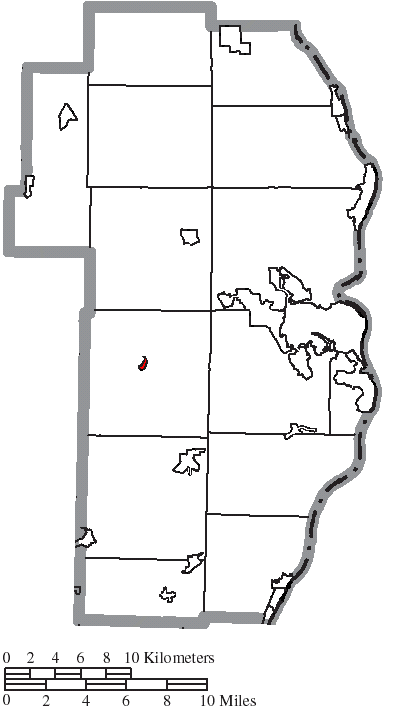 Map of the municipal and township boundaries of Jefferson County, Ohio, United States, as of the 2000 census, with the location of the village of Bloomingdale highlighted. Township borders are shown only in unincorporated areas in order to differentiate incorporated and unincorporated areas more clearly.